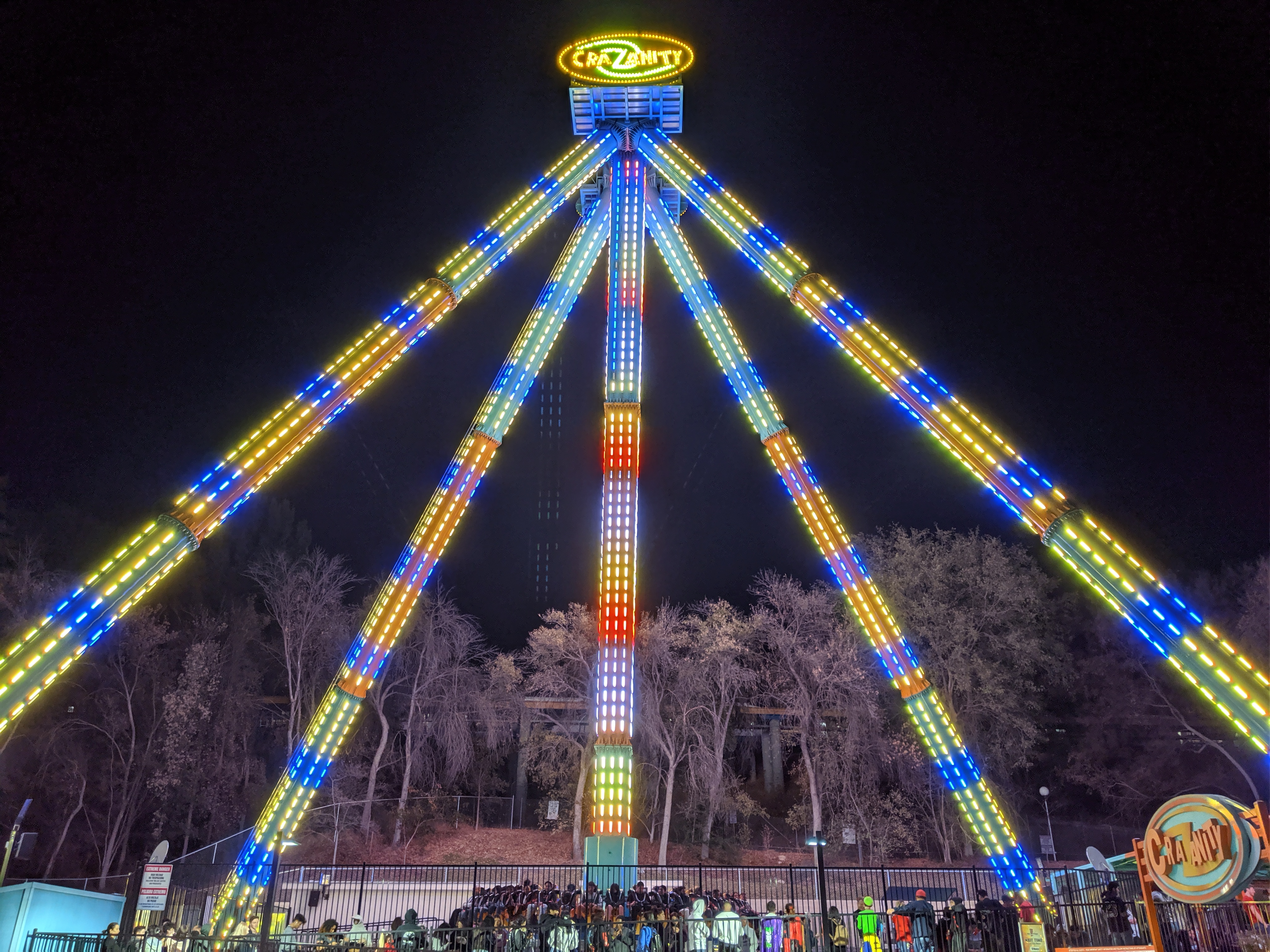 Crazanity